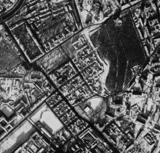 Lefortovo district, Moscow. Part of Corona satellite imagery